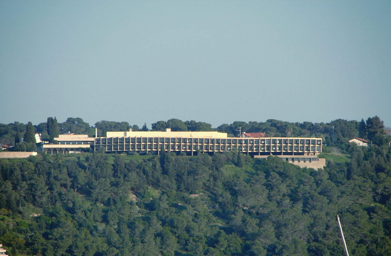 Former Mivtachim convalescence home in Zikhron Yaakov, Architect Yaacov Rechter